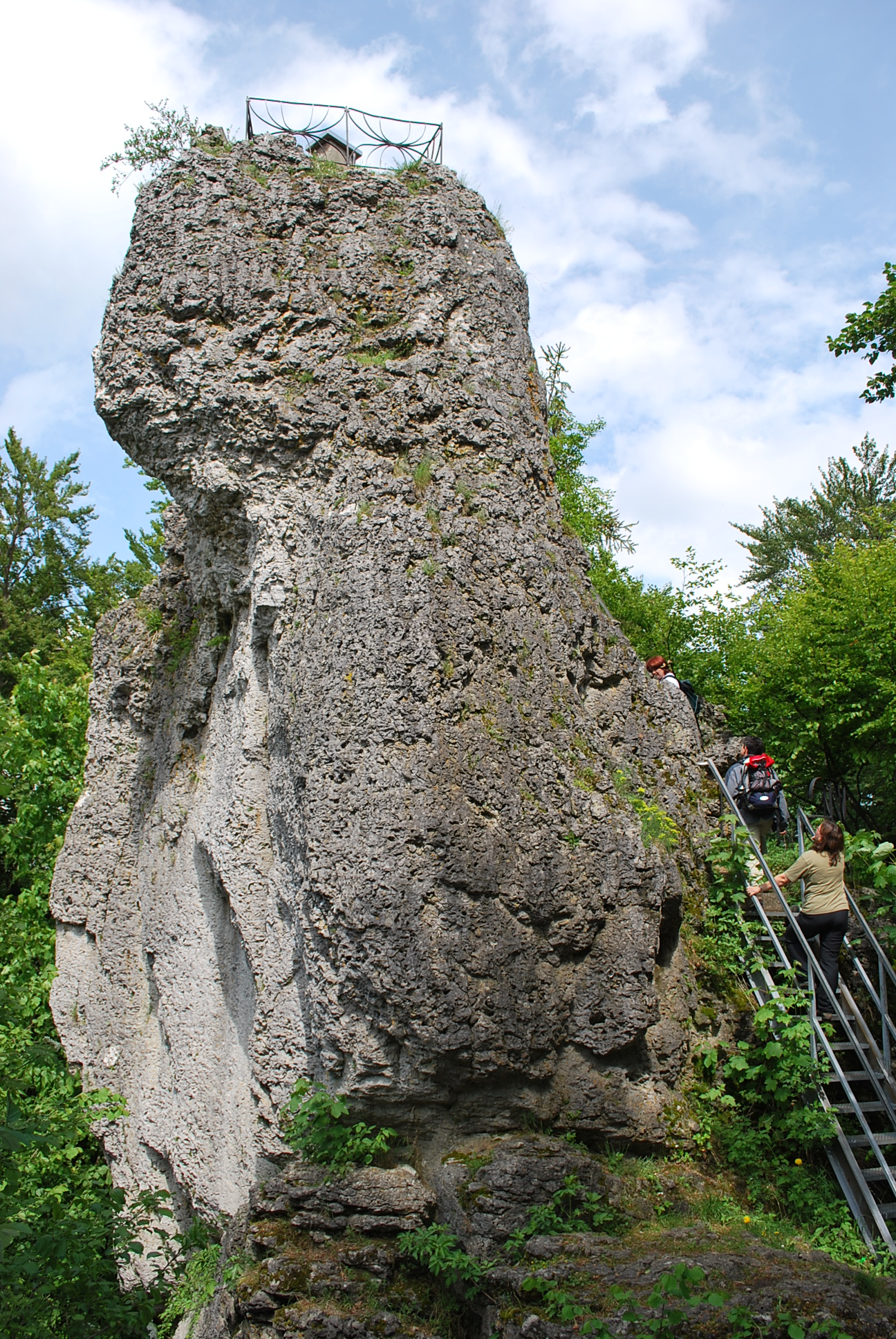 Rock "Signalstein" near by Egloffstein